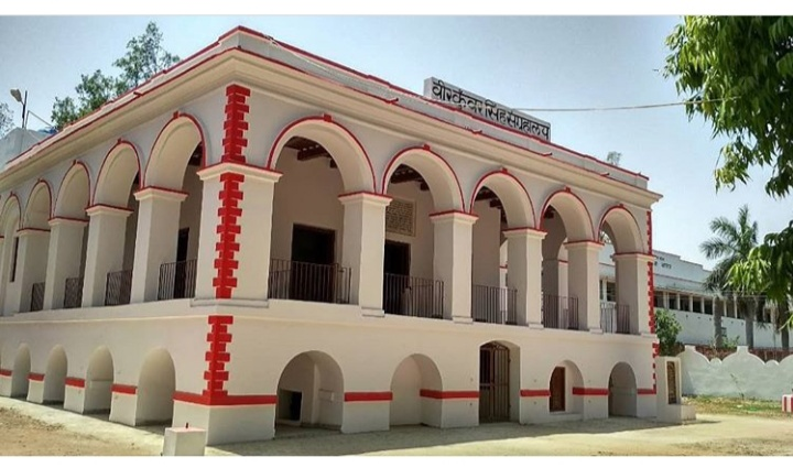 Photo